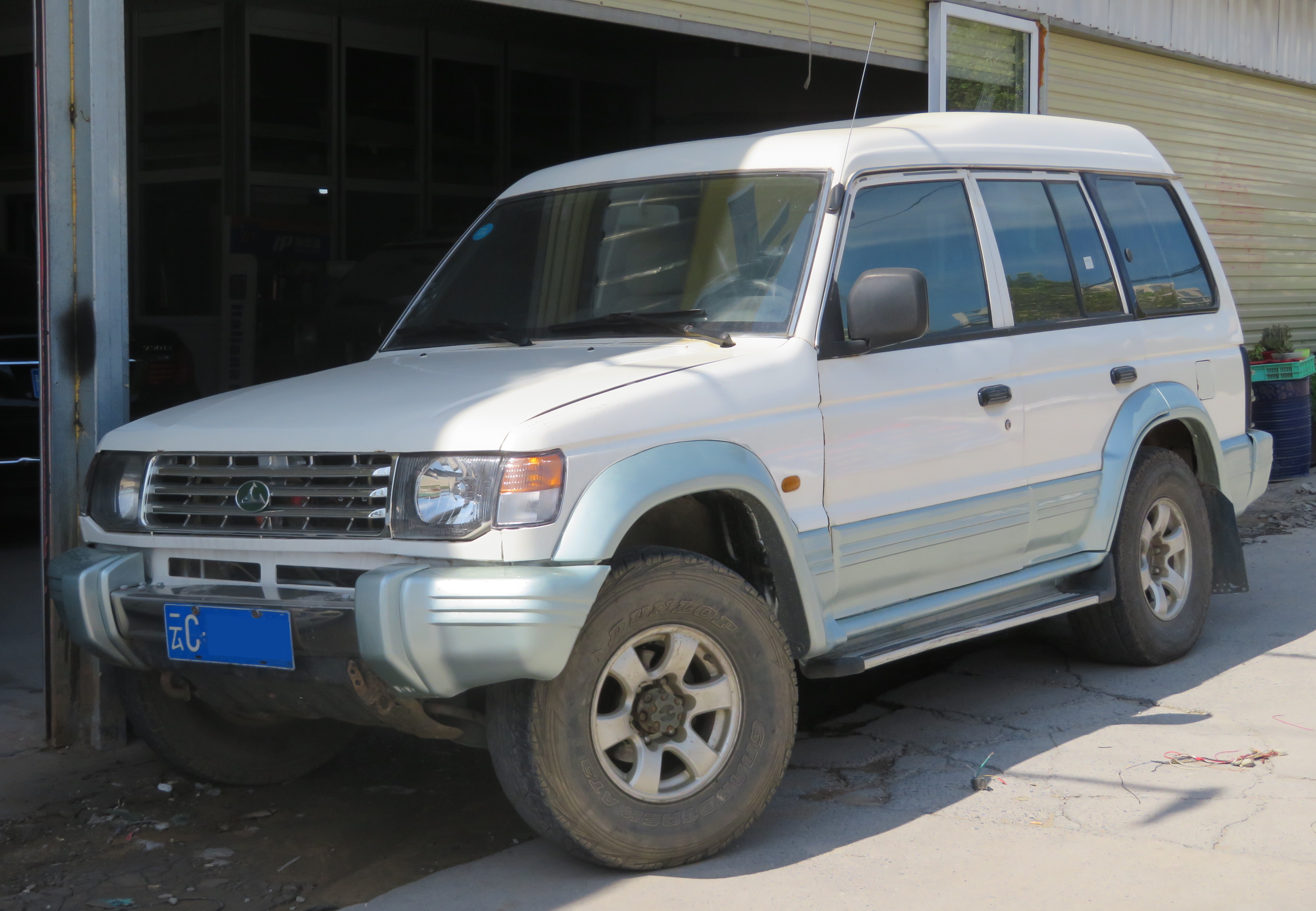 Photographed in Luoyang, Henan province, China